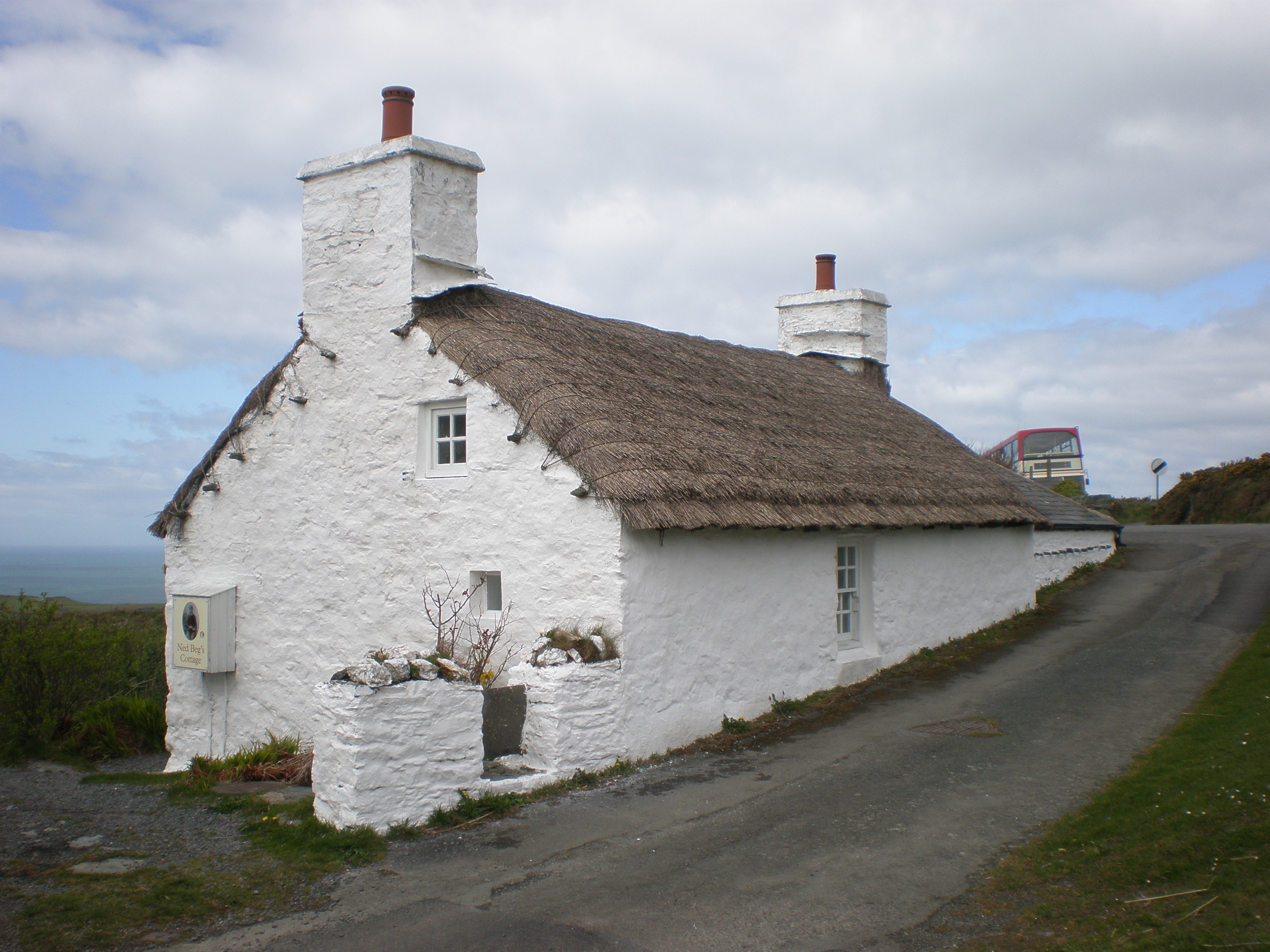 Ned Beg Hom Ruy's (Edward Faragher's) cottage in Cregneash, the Manx National Folk MuseumGaelg: Bwaane Ned Beg Hom Ruy (Edward Faragher) ayns CreneashCymraeg: Bwthyn Ned Beg Hom Ruy (Edward Faragher) yng Nghreneash, Amgeuddfa Werin Enedlaethol Ynys Manaw